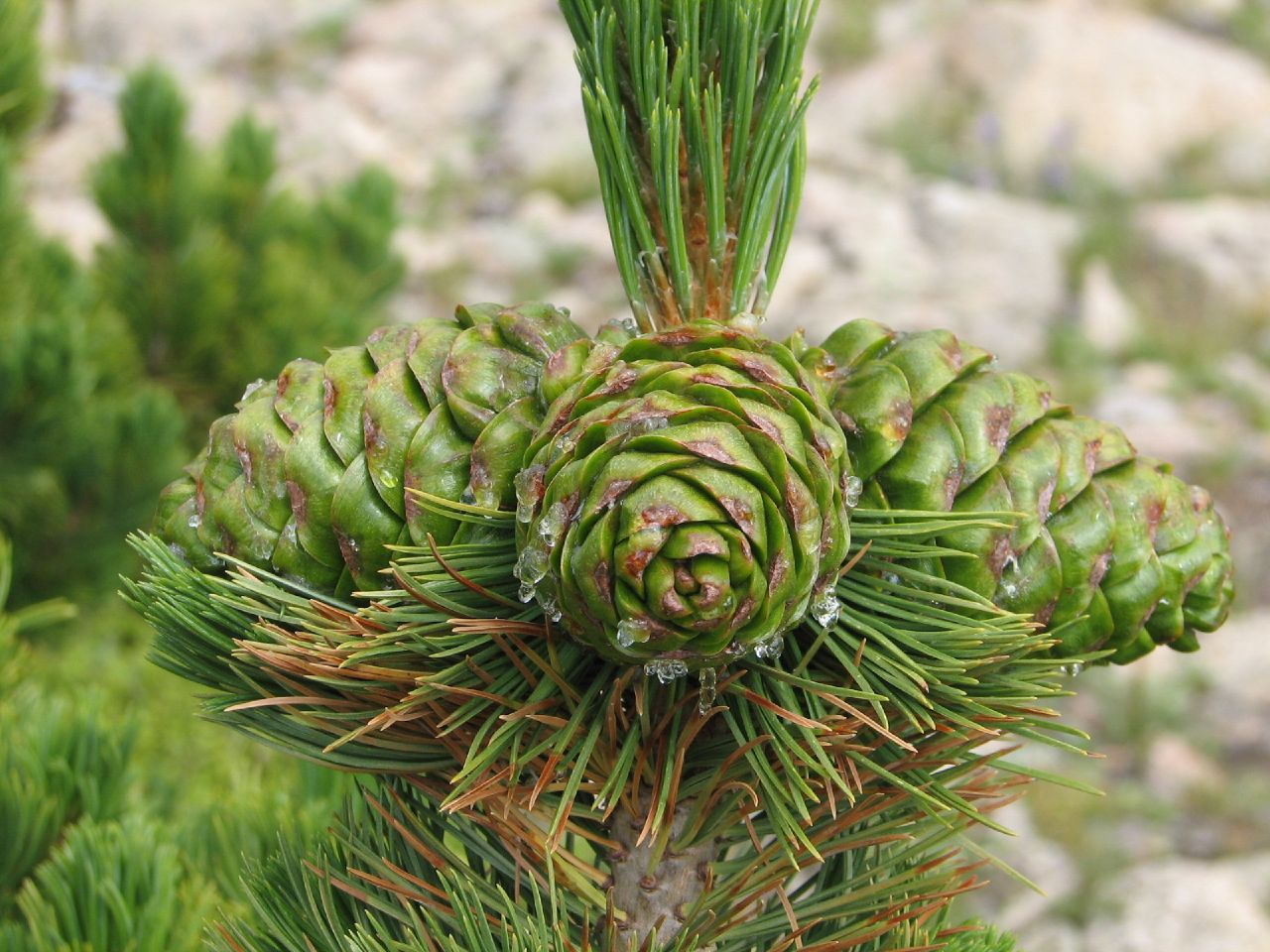 Pinus flexilis foliage and cones, Mount Audubon, Colorado